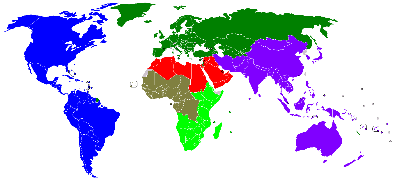 World_Customs_Organization (colored as per official groups)